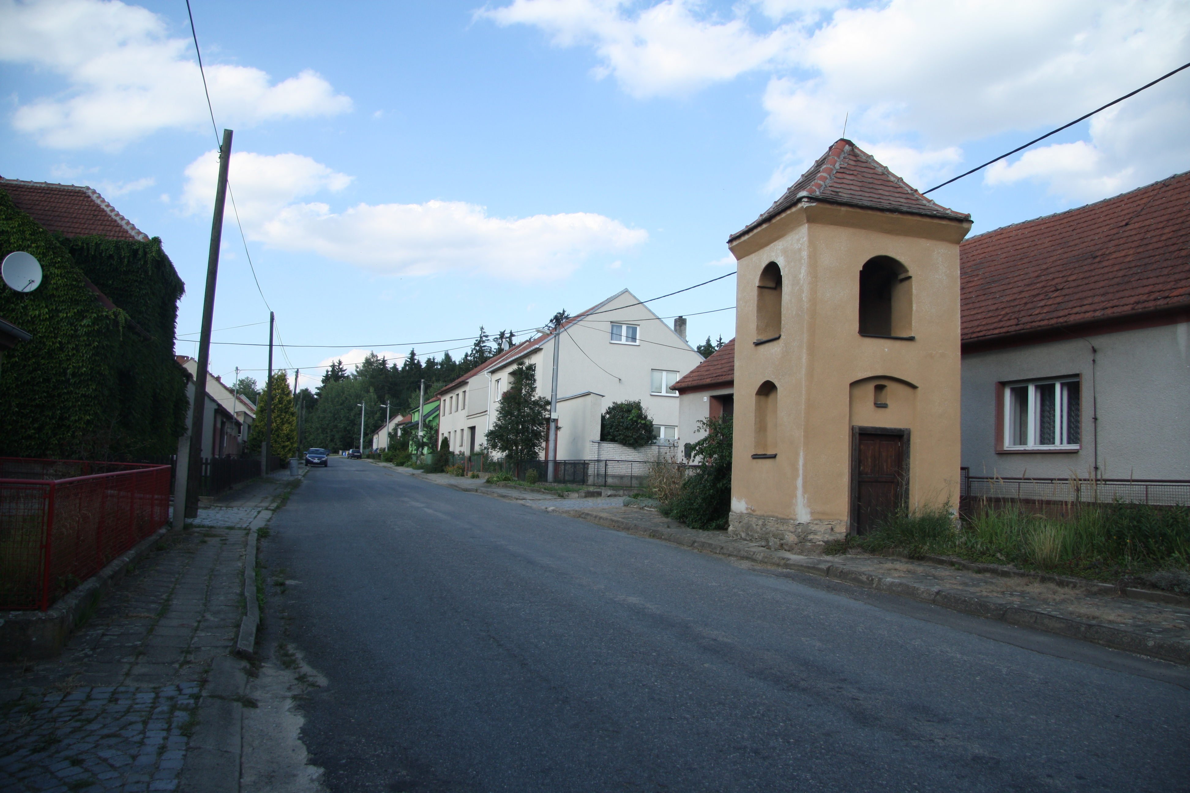 Center of Jindřichov, Velká Bíteš, Žďár nad Sázavou District.